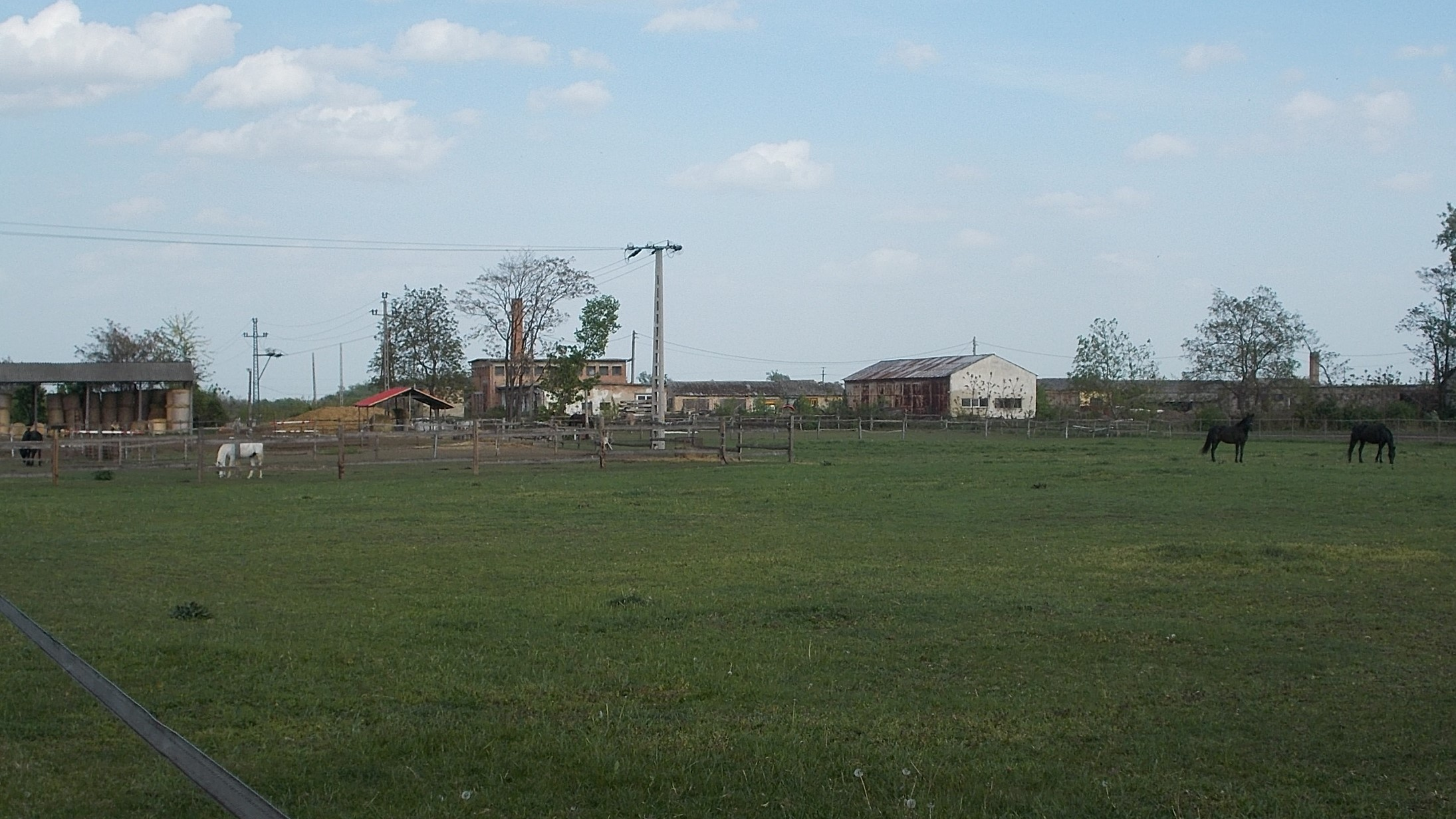 Horse farm - Kossuth Lajos utca, Heves, Heves County, Hungary.